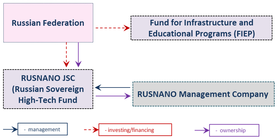 Actual Structure of Rusnano